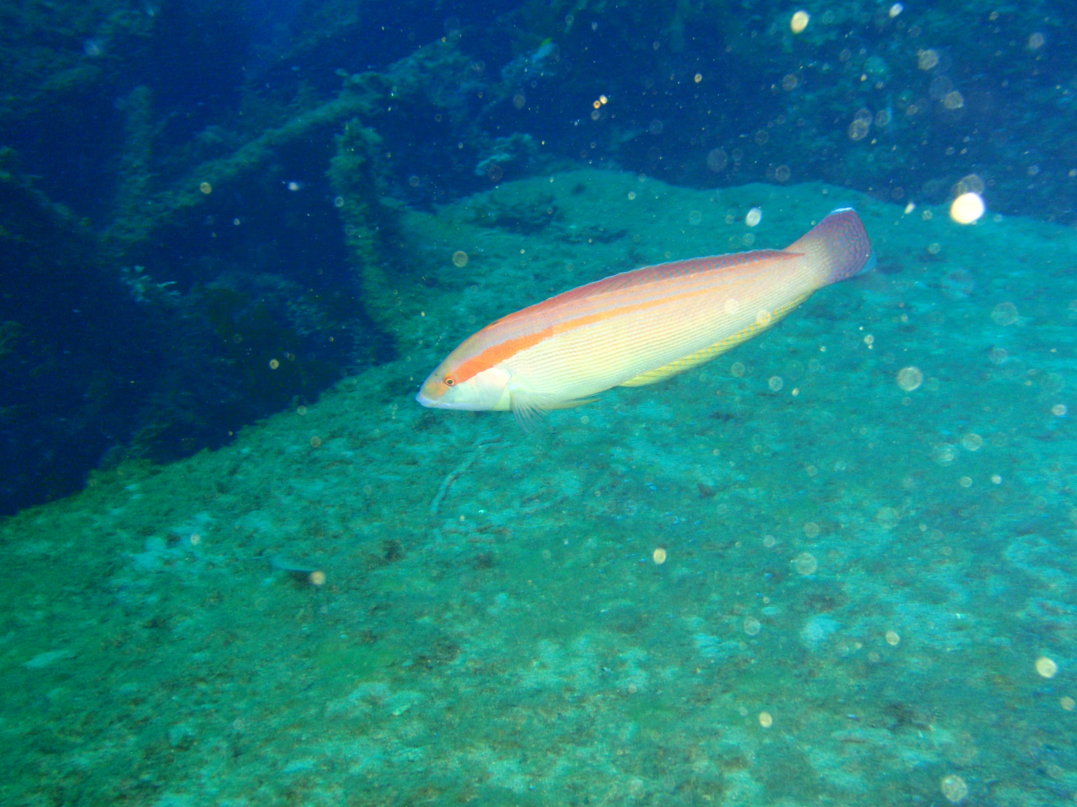 Female king wrasse Coris auricularis at the wreck of the Cheynes III in King George Sound, Western Australia